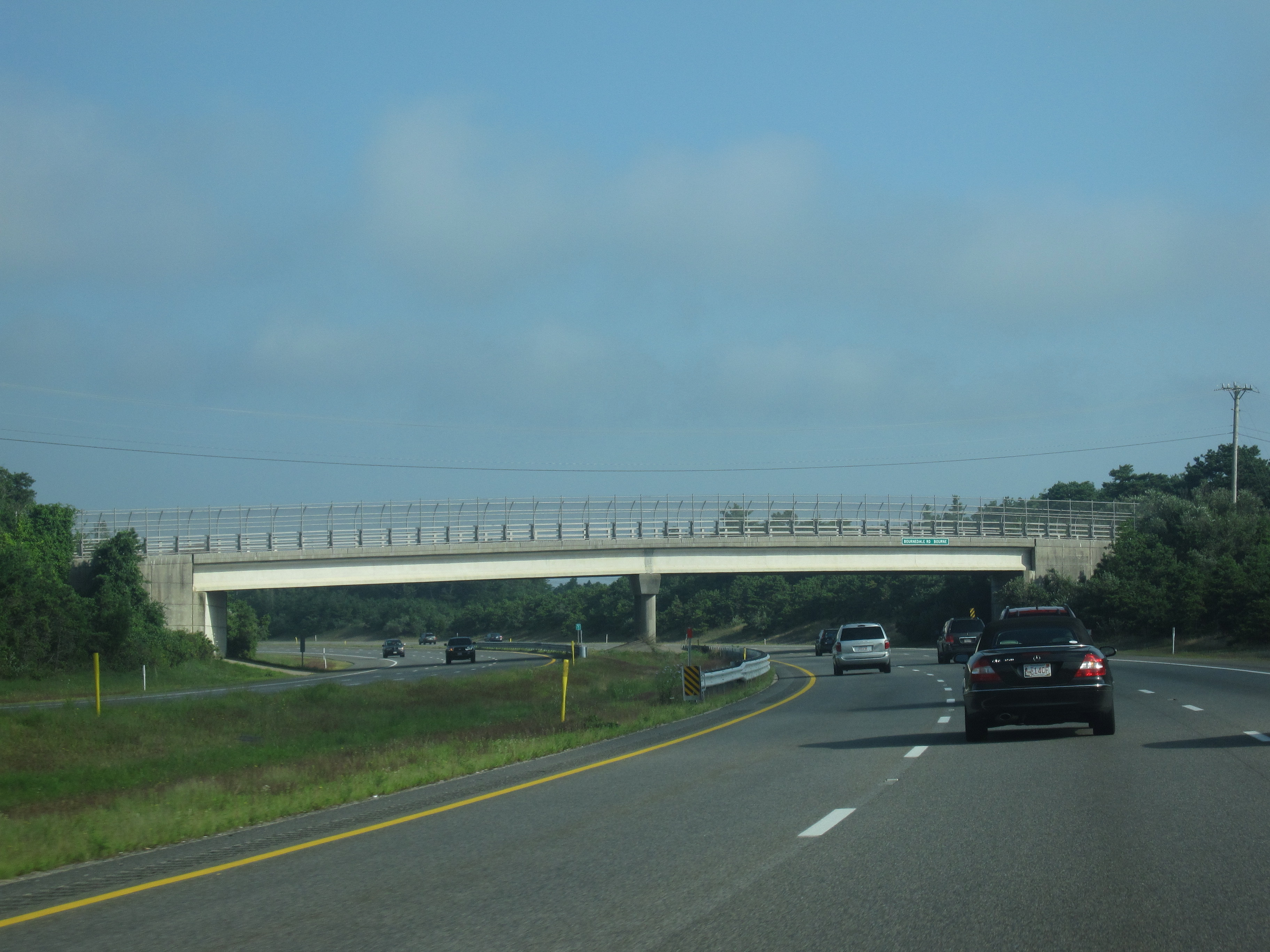 Westbound Massachusetts Route 25 in Plymouth at the Bournedale Rd overpass